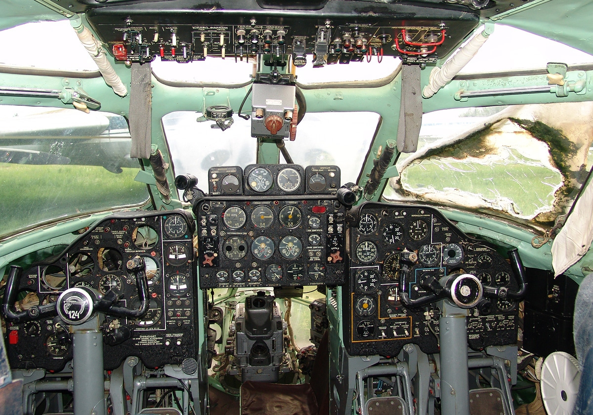 An extremely rare sight these days and first TU-124 cockpit on !